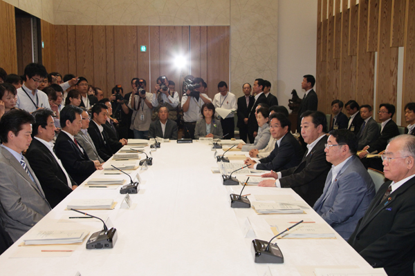 Yoshihiko Noda, Prime Minister, attended a meeting of the Consumer Policy Council with Jin Matsubara, Minister of State for Consumer Affairs and Food Safety, at the Prime Minister's Official Residence in Chiyoda Ward, Tōkyō Metropolis on July 20, 2012.